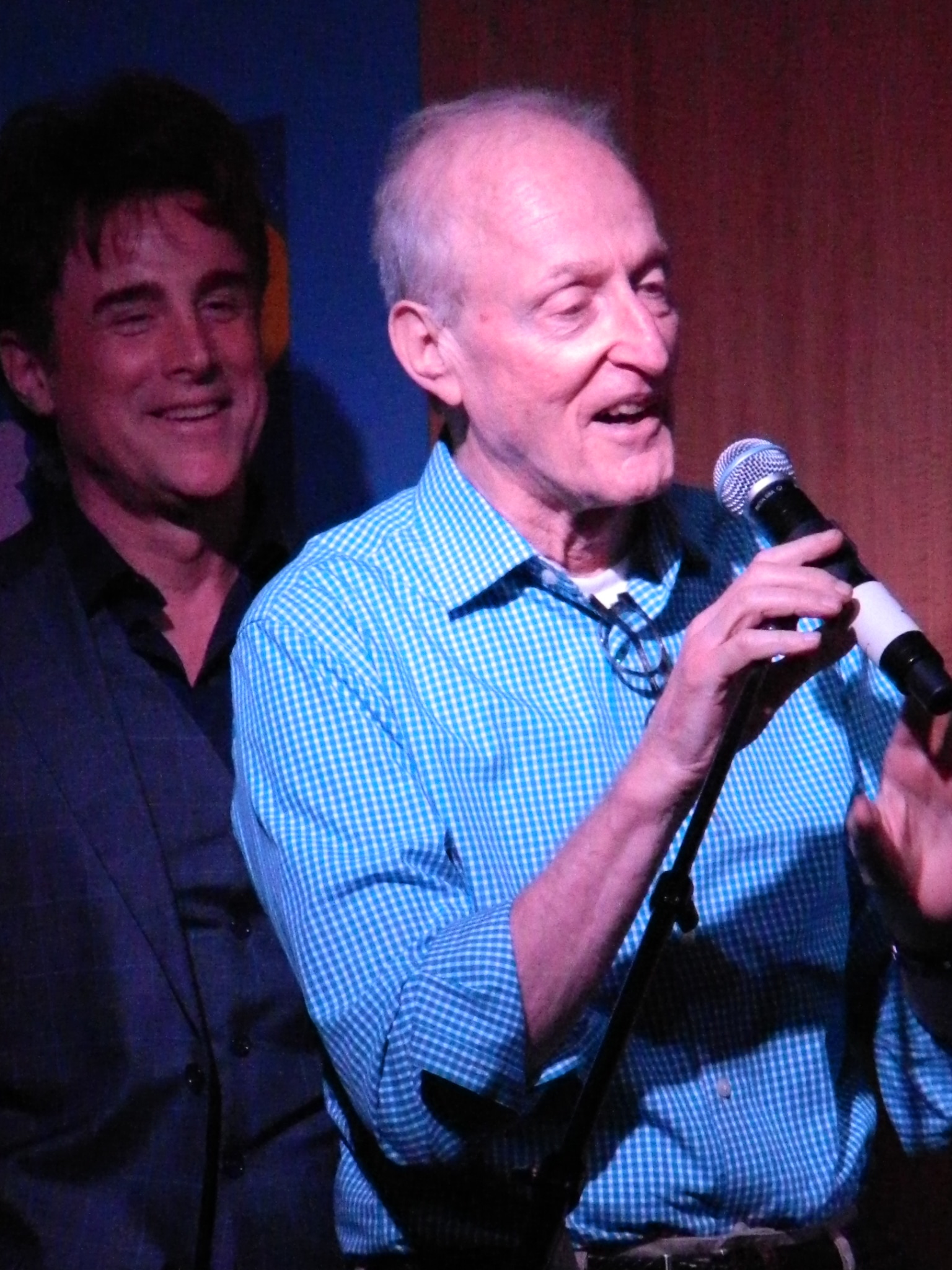 David Shire in New York, Friday evening, Sept. 20, 2013.